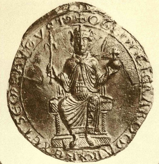 This is a scan of the historical document